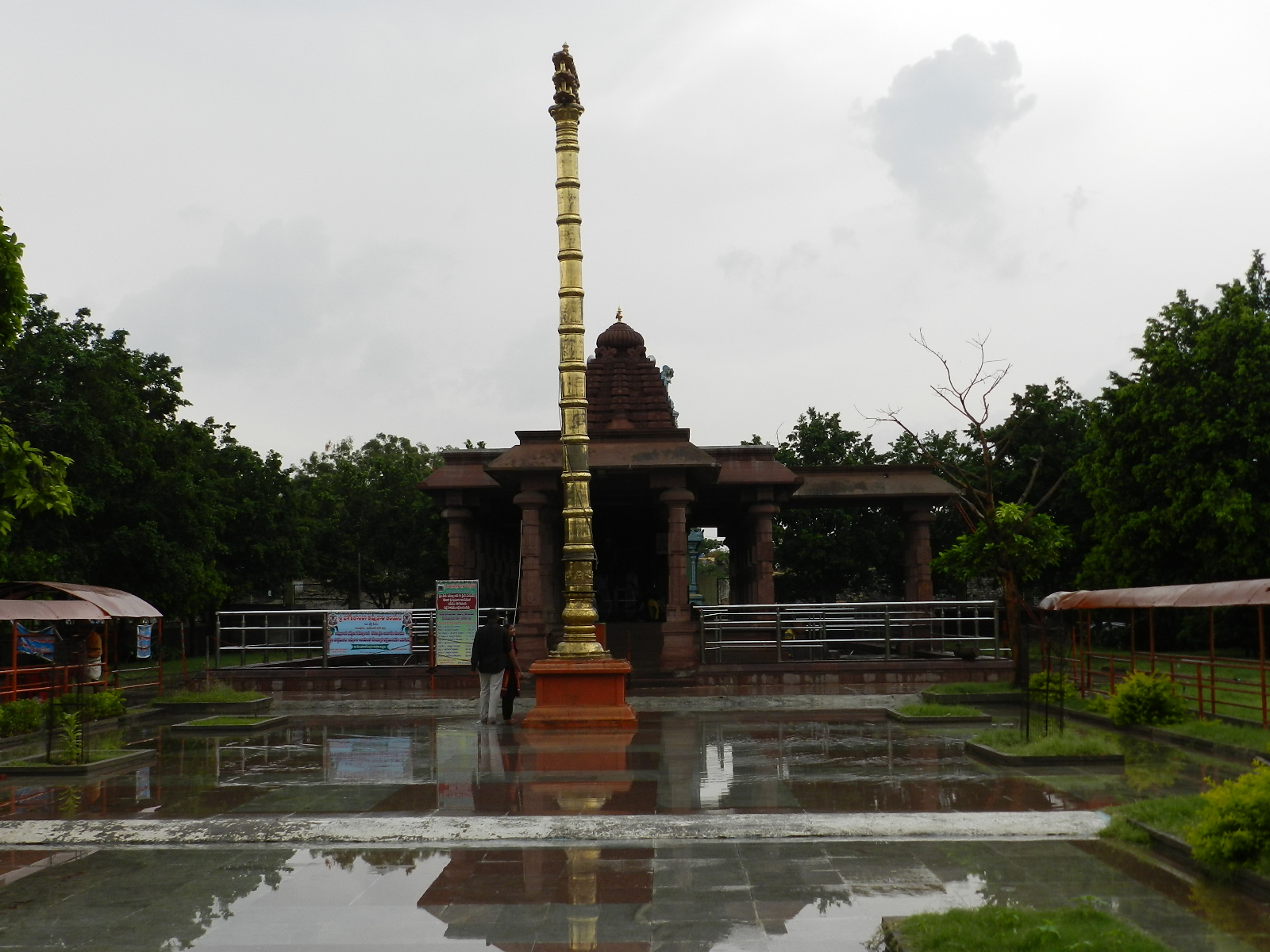 Jogulamba temple alampur